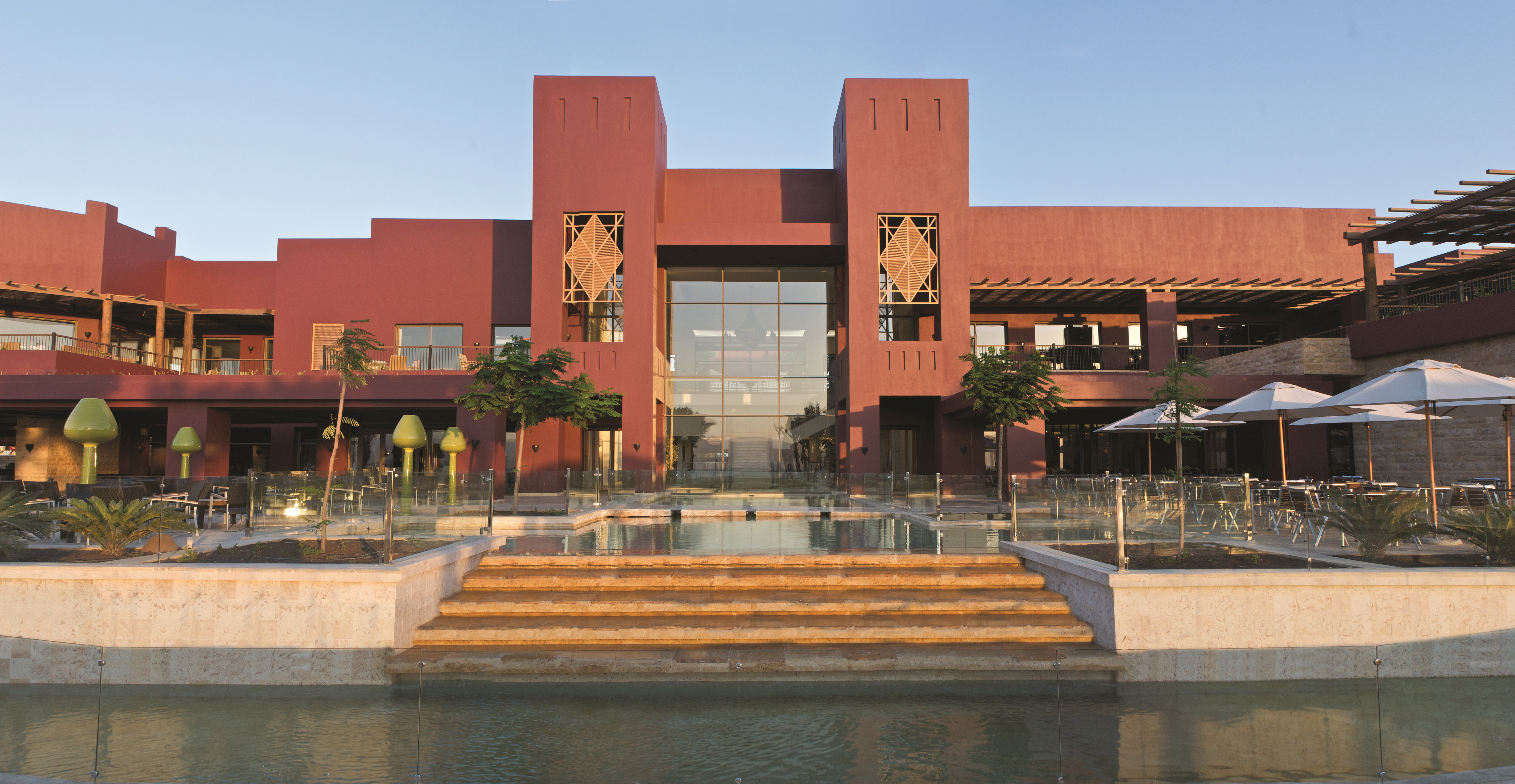 An outdoor view of Movenpick Tala Bay - Aqaba